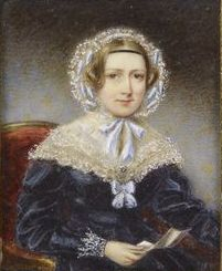 A portrait of Queen Victoria's governess, Charlotte Percy, Duchess of Northumberland, painted in 1839 by Thomas Overton (Q54152864) and bought from his daughter by the Queen in 1870.